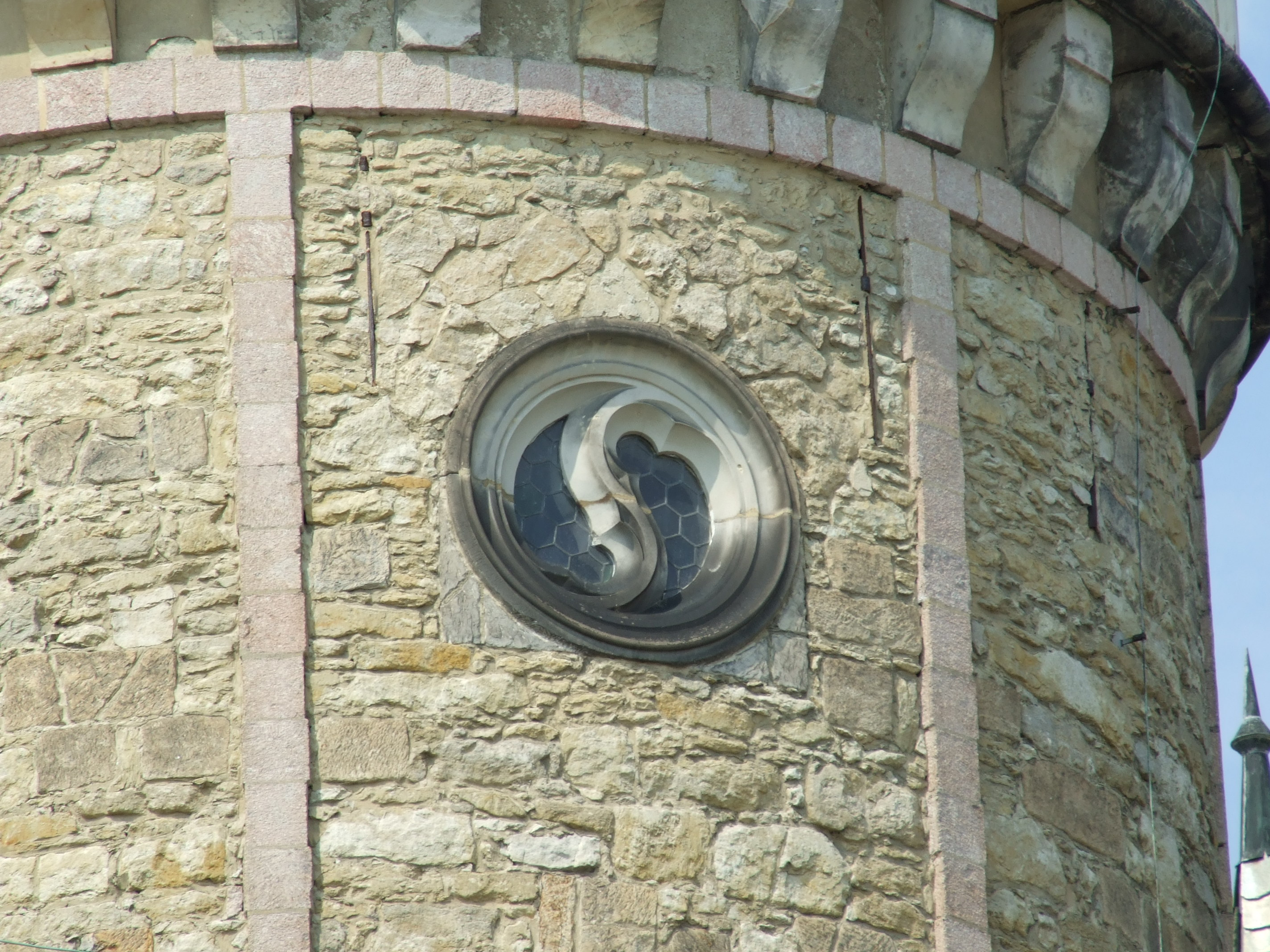 Round window, Sychrov castle, Czech Republic.